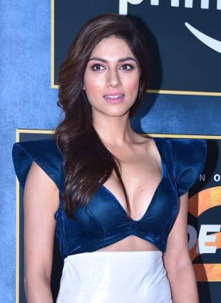 Sapna Pabbi at the special screening of web series Inside Edge Season 2